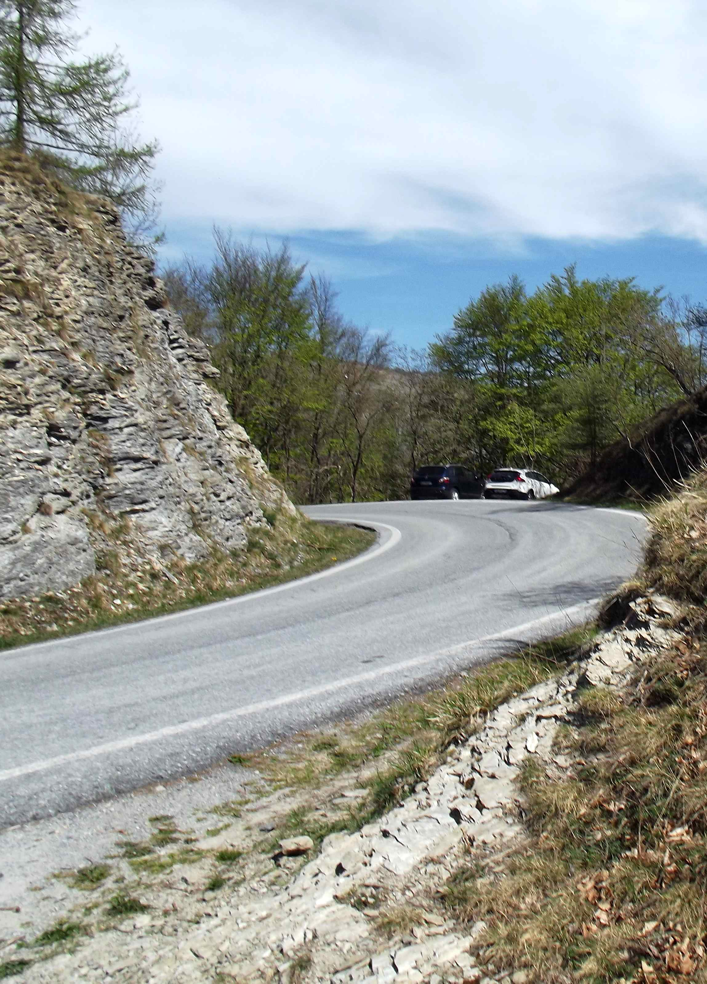 Colle di Caprauna (Ligurian Alps)